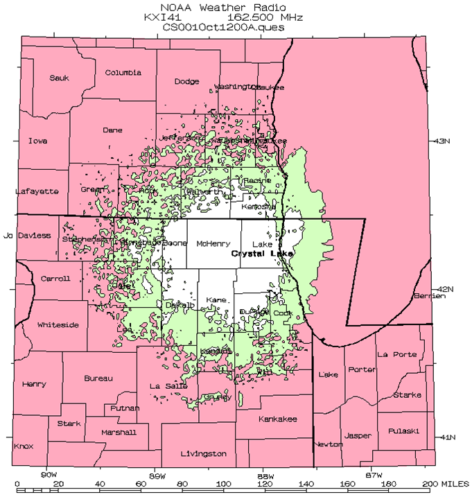 Coverage area of NOAA All Hazards Radio station KXI41 in Crystal Lake, Illinois.